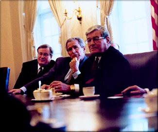 Congressman Phil Crane (right) meets with President George W. Bush (center) and Congressman Bill Thomas (left) in the White House Cabinet Room to discuss Trade Promotion Authority. Crane cosponsored the Trade Promotion Authority bill that passed the House of Representatives in December.